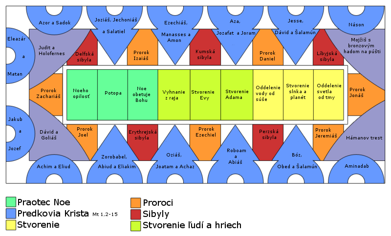 scheme of ceiling